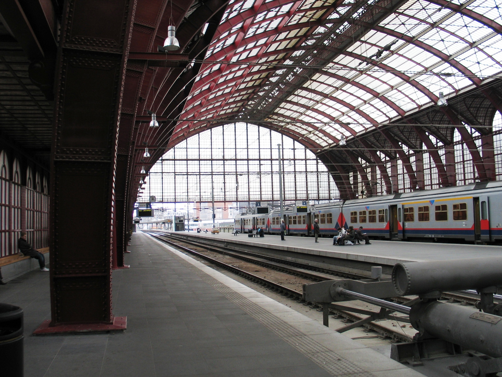 Central station Antwerp my own work Paul Hermans